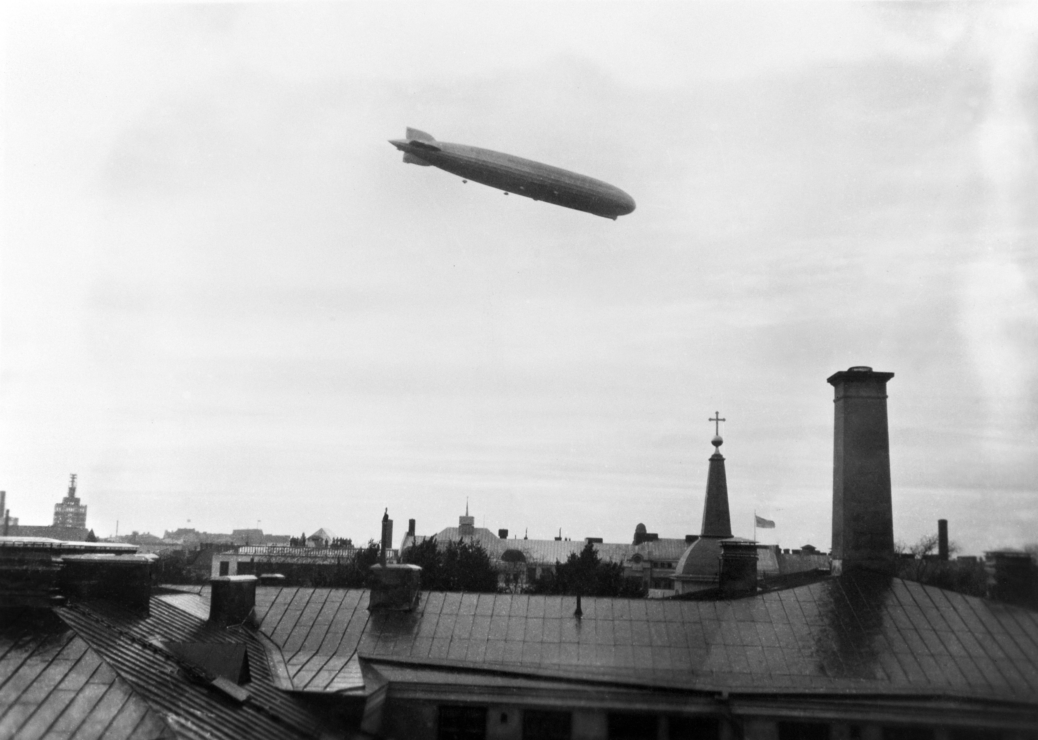 LZ 127 Graf Zeppelin above Helsinki in 24th of September 1930.